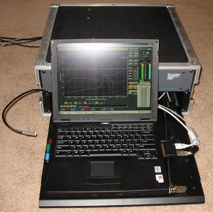 IBM laptop in a 4U portable rack, running Smaart software for analysis of sound systems.